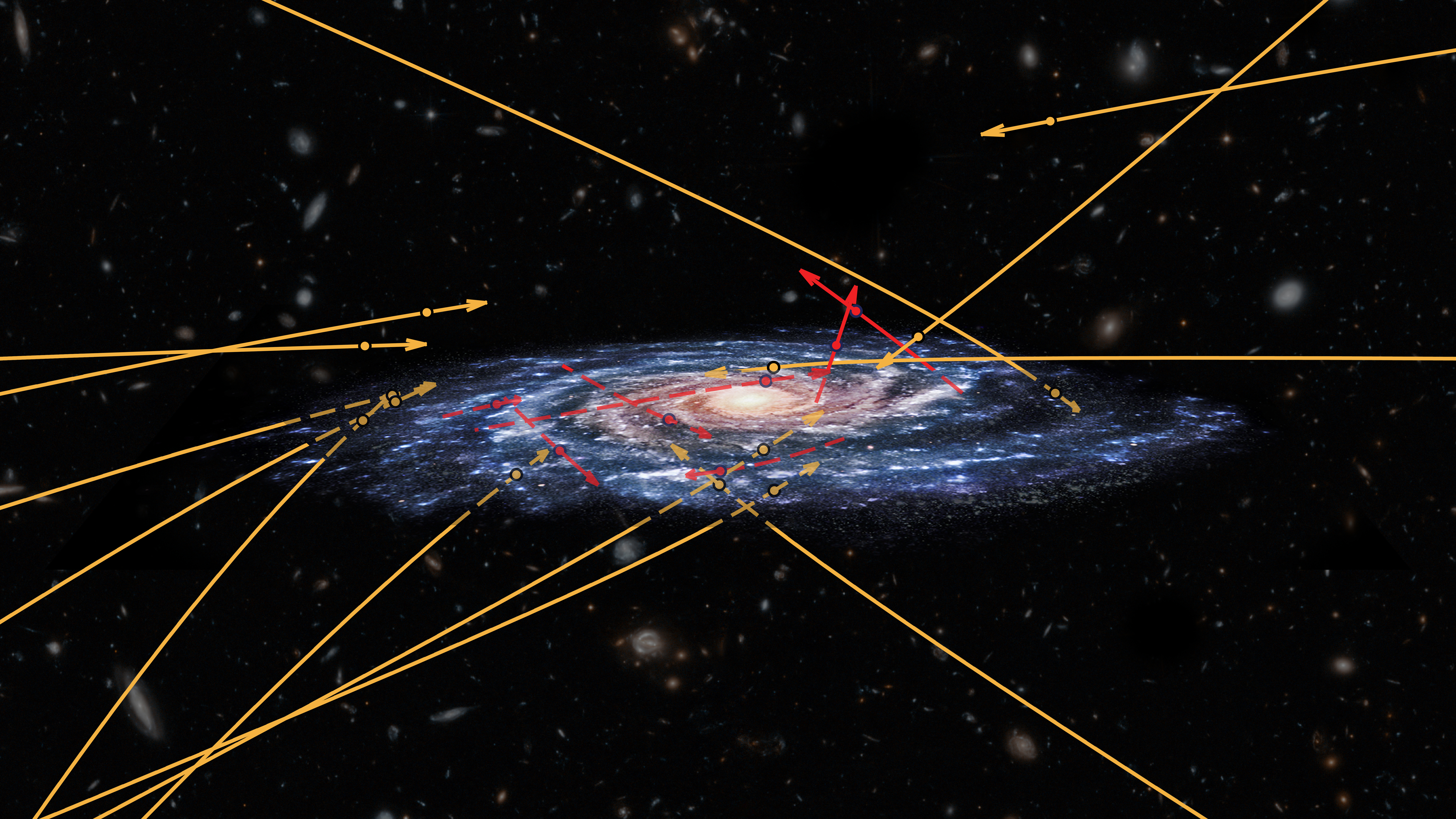 The positions and reconstructed orbits of 20 high-velocity stars, represented on top of an artistic view of our Galaxy, the Milky Way. These stars were identified using data from thesecond release of ESA’s Gaia mission. The seven stars shown in red are sprinting away from the Galaxy and could be travelling fast enough to eventually escape its gravity. Surprisingly, the study revealed also thirteen stars, shown in orange, that are racing towards the Milky Way: these could be stars from another galaxy, zooming right through our own. More information